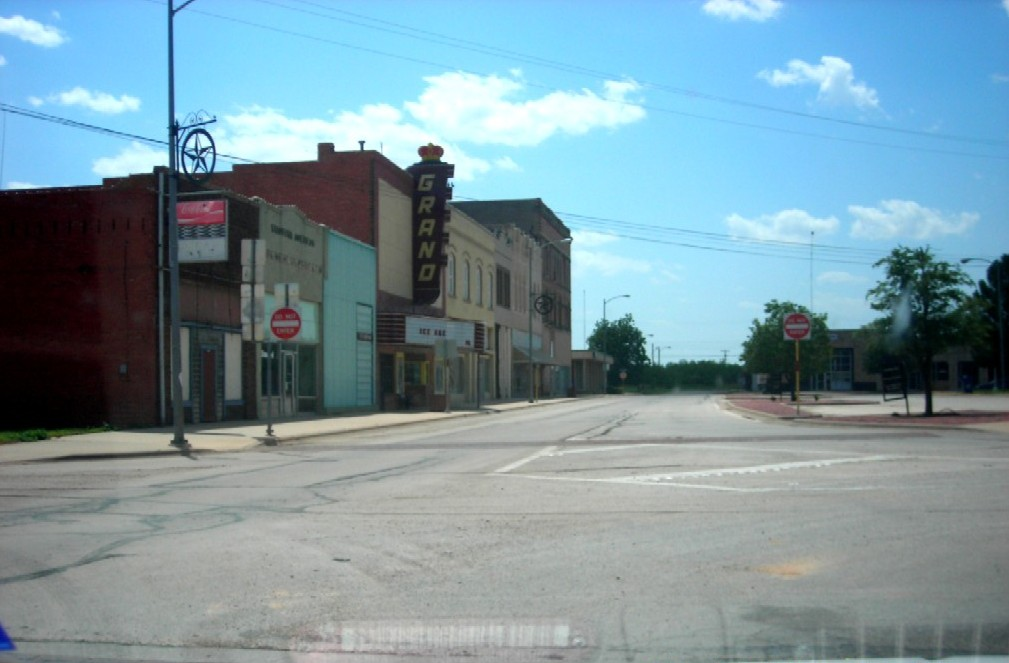 A row of businesses in Stamford, including the vintage single screen Grand Theater.